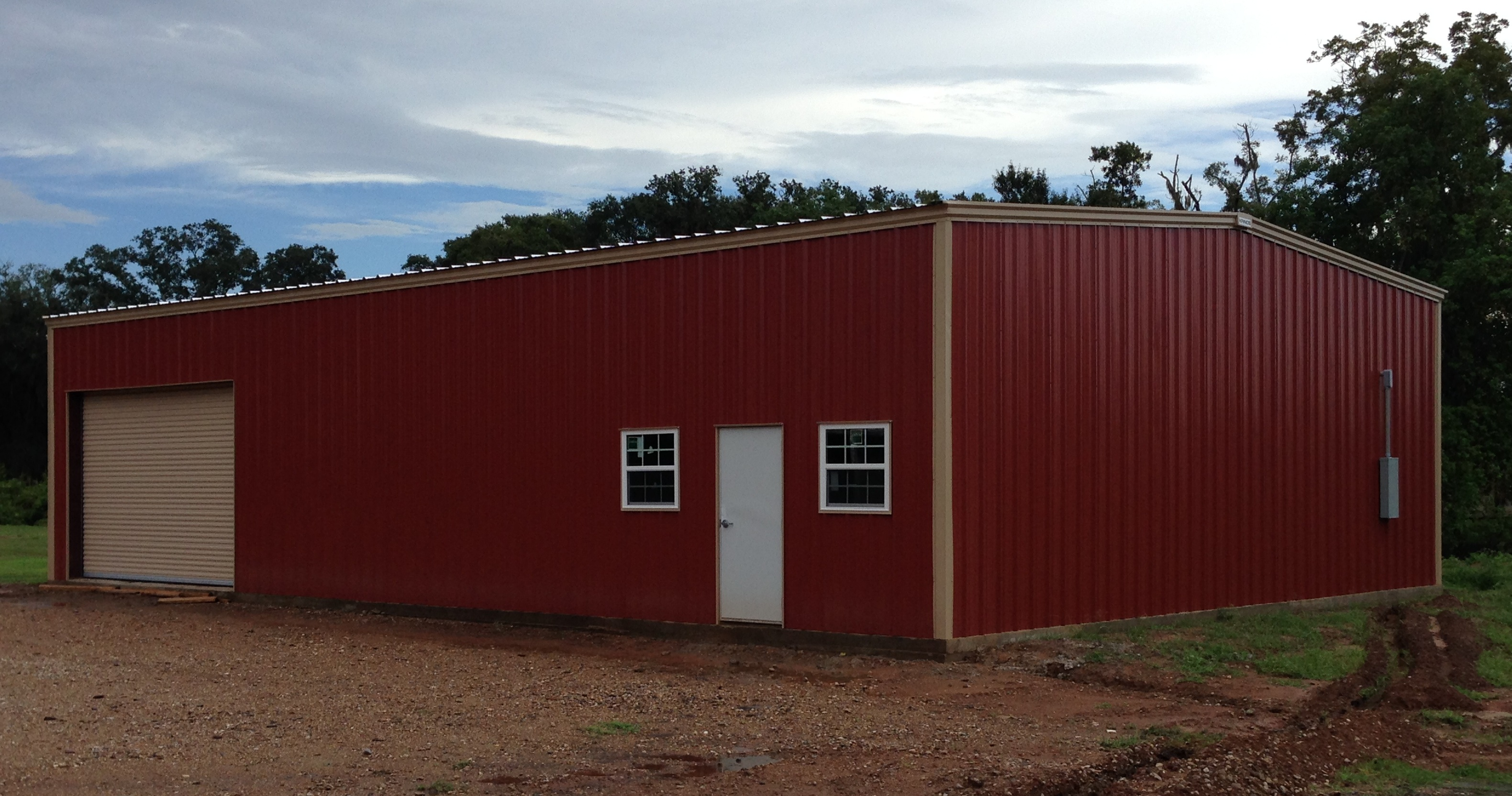 40' x 60' x 12' Kainos Steel Building located near Houston, TX.